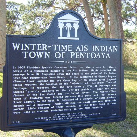 Historic marker for the Ais Indian Town of Pentoaya.